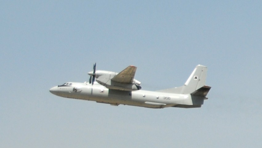 Afghan Air Force AN-32 (this image was cropped by Officer)